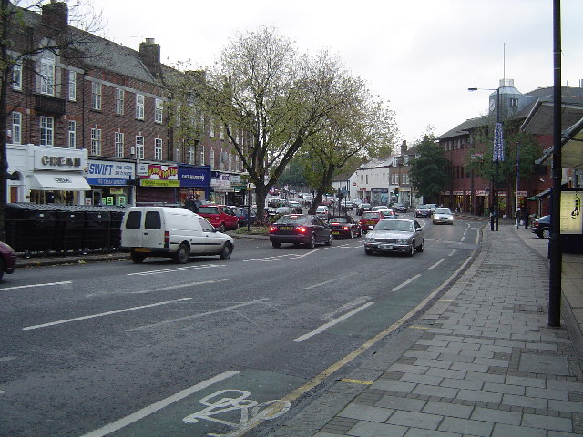 Stanmore: The Broadway. Community shops viewed looking eastwards.